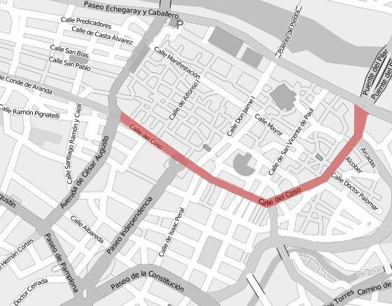 This map may be incomplete, and may contain errors. Don't rely solely on it for navigation.